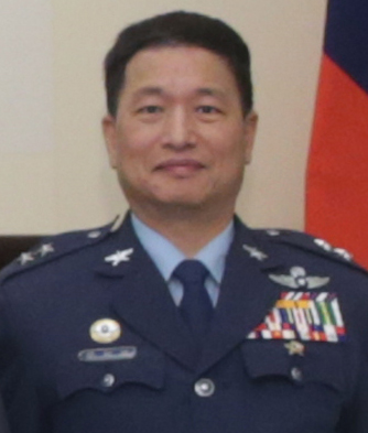 Air Force (ROCAF) Lieutenant General Chang Yen-ting, Deputy Chief of Staff for Intelligence, General Staff Headquarters